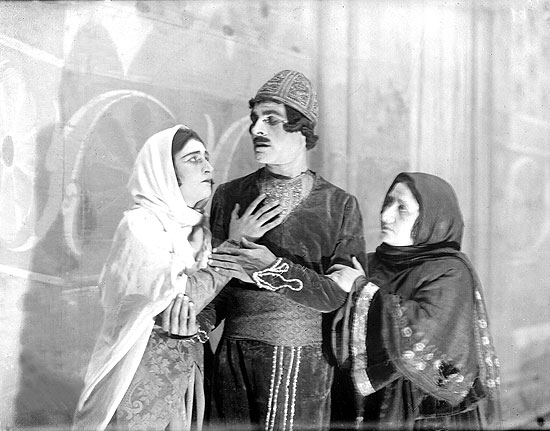 Scene from opera "Ashiq Qarib" of Zulfugar Hajibeyov. Director Y. Yulduz, A. Sharifzade. H. Sarabski as Ashiq Qarib